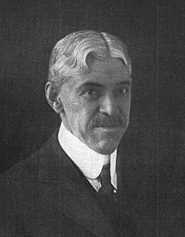 Eugene Bicknell (1859-1925) probably in his fifties.